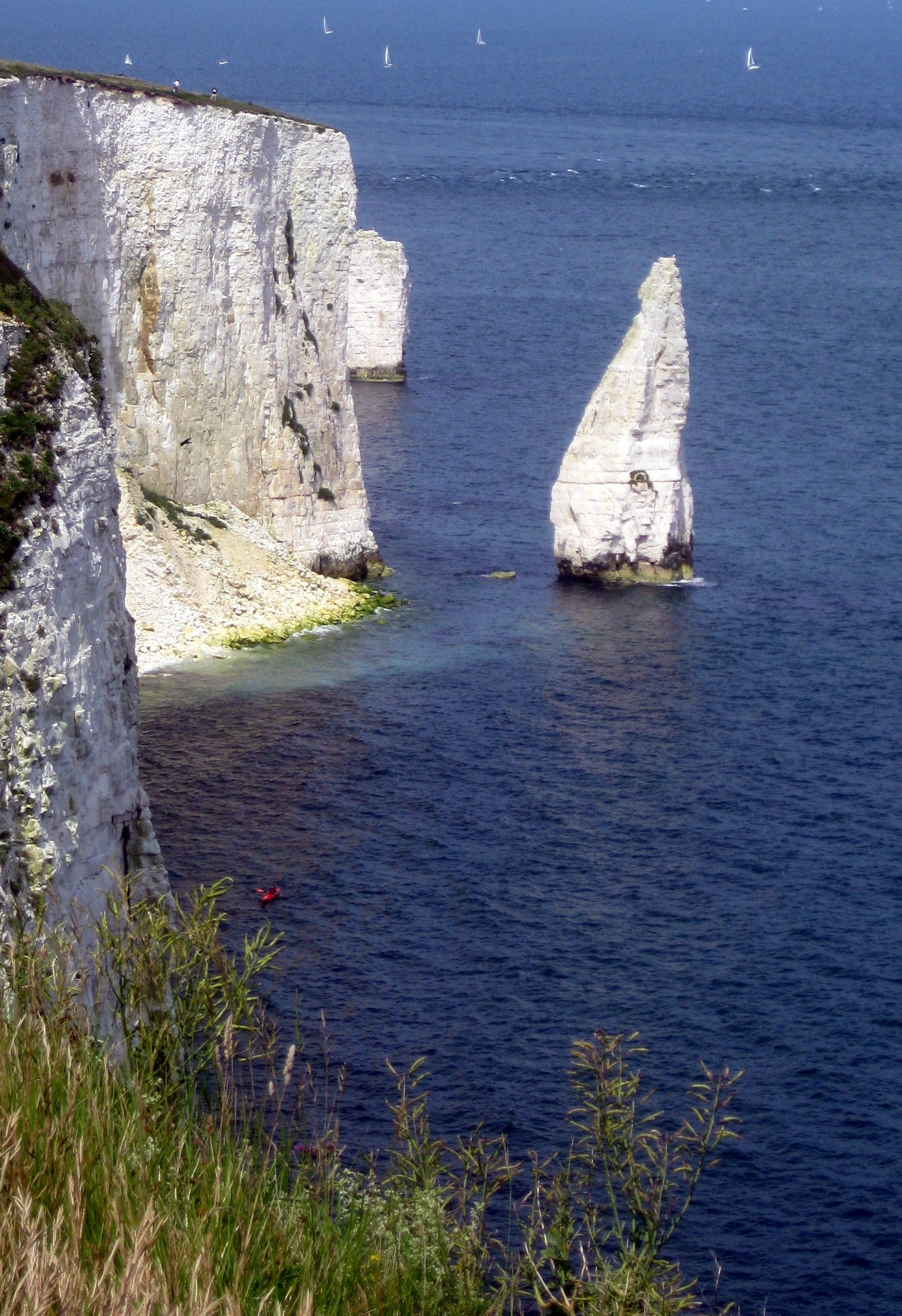 The Pinnacles by Old Harry Rocks, between Studland Bay and Swanage Bay